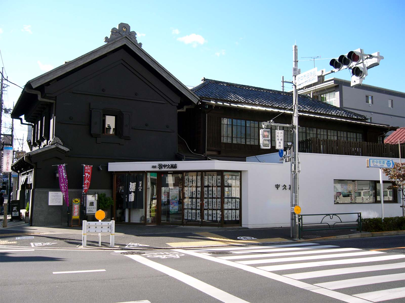 Tonyabaato. 府中宿問屋場跡, Fuchu (Tokyo).